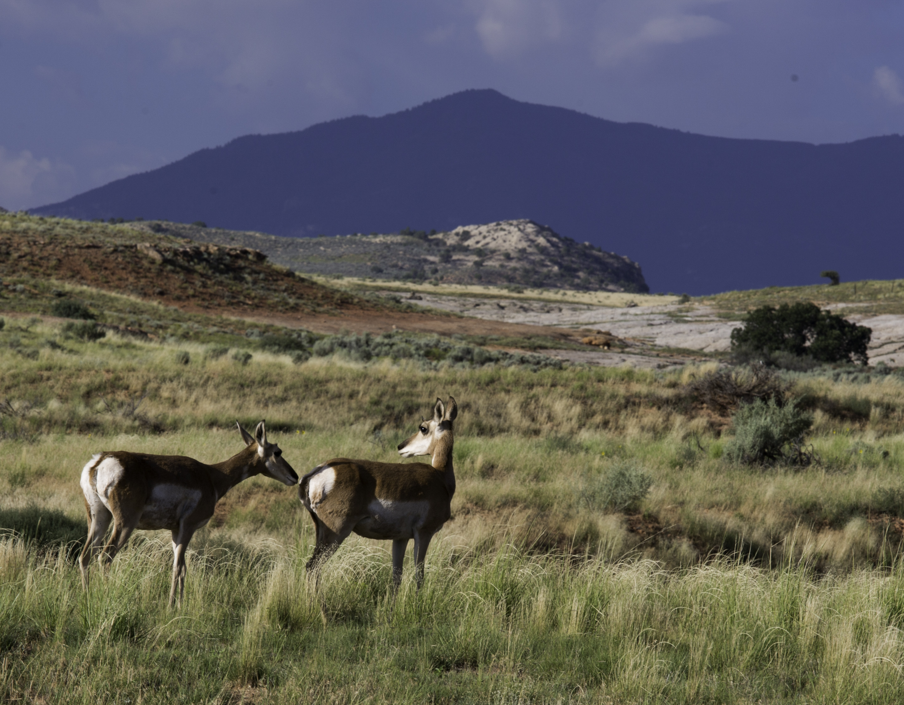 Indian Creek plus antelope